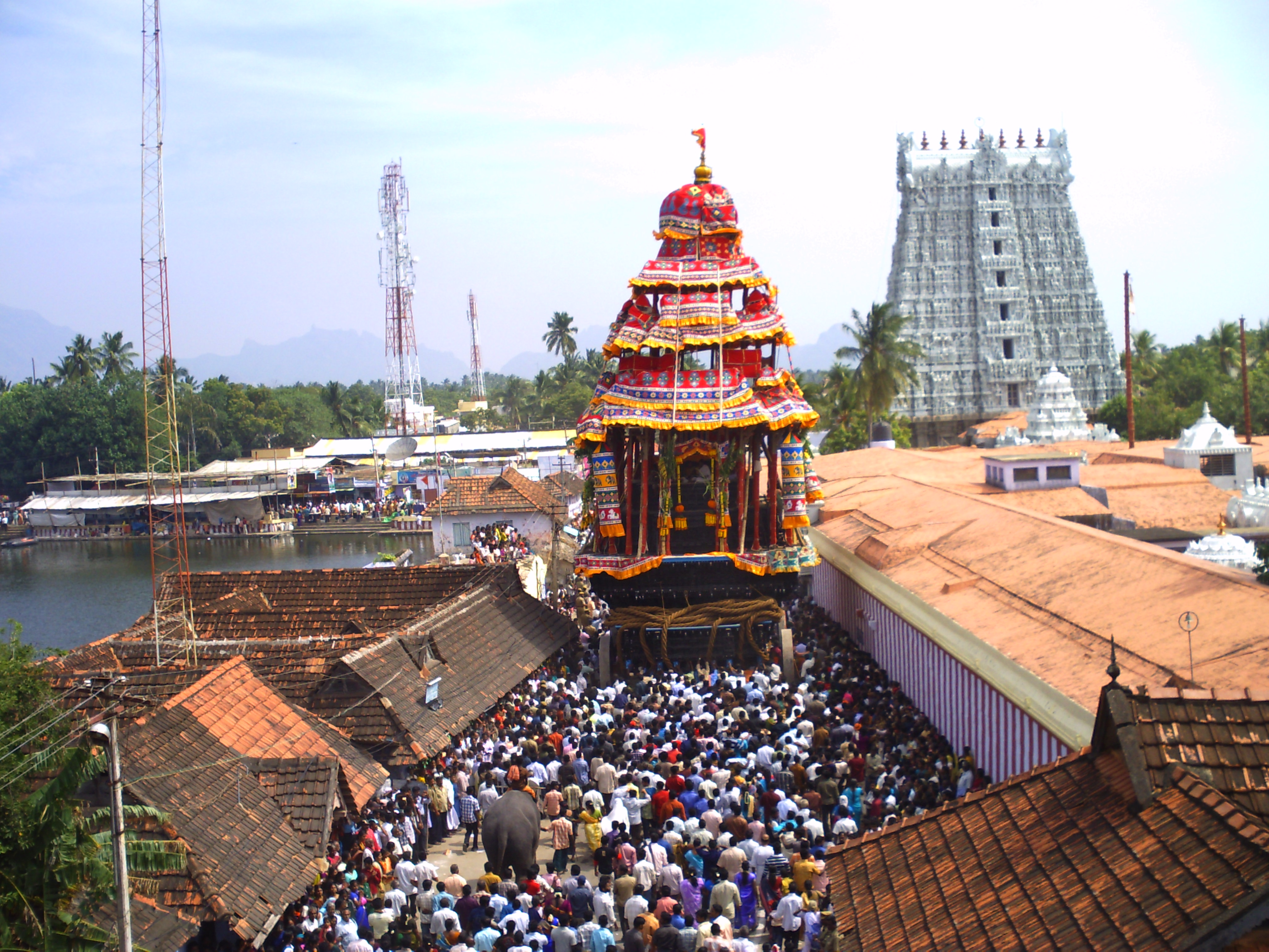 Powerfull of Car Festivel in Kanyakumari